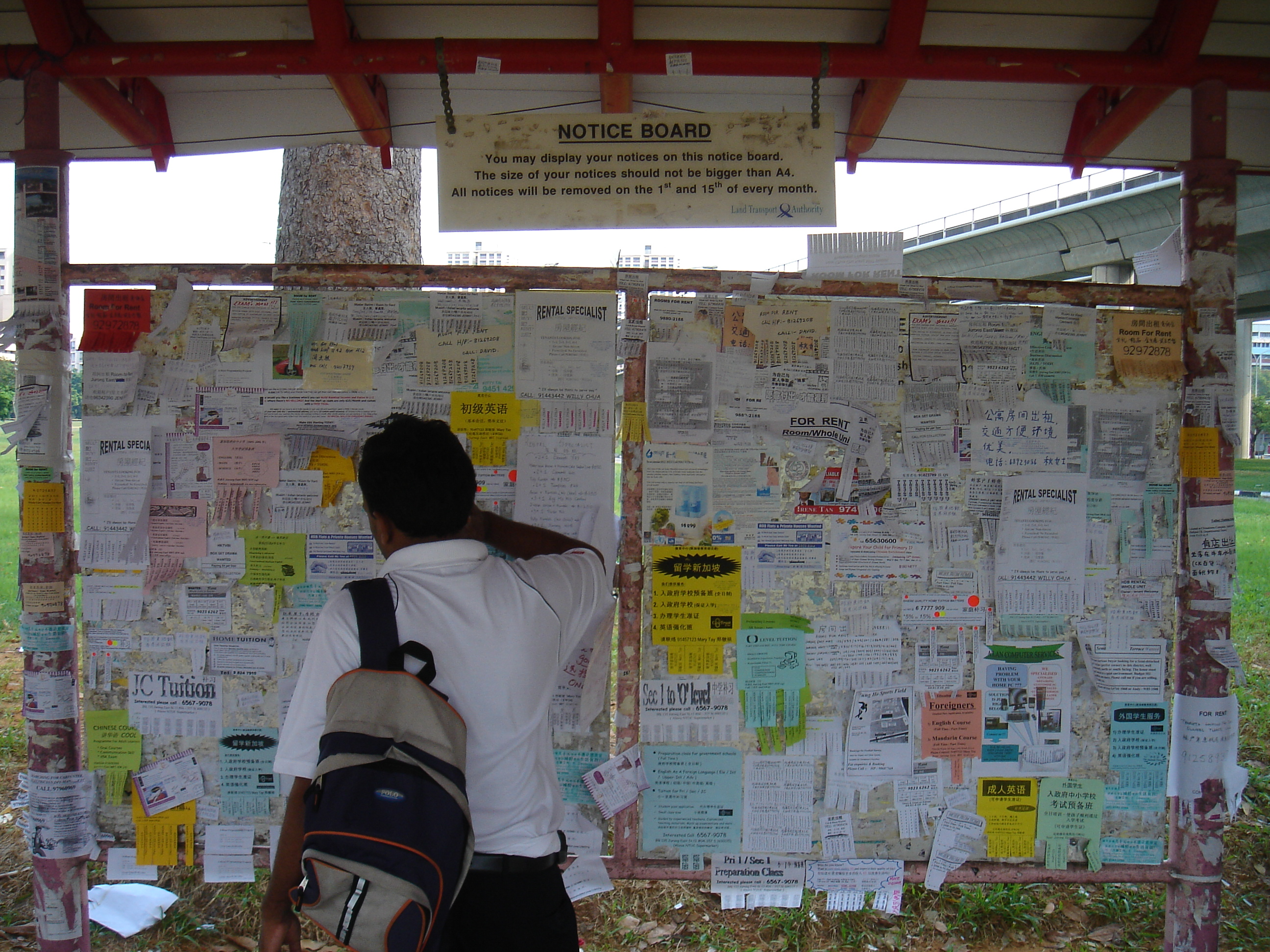 Advertising notice board, Jurong East Bus Interchange covered walkway. (Unlike the actual notice board, the SGpedian's Notice Board does not regularly remove its articles! =P)